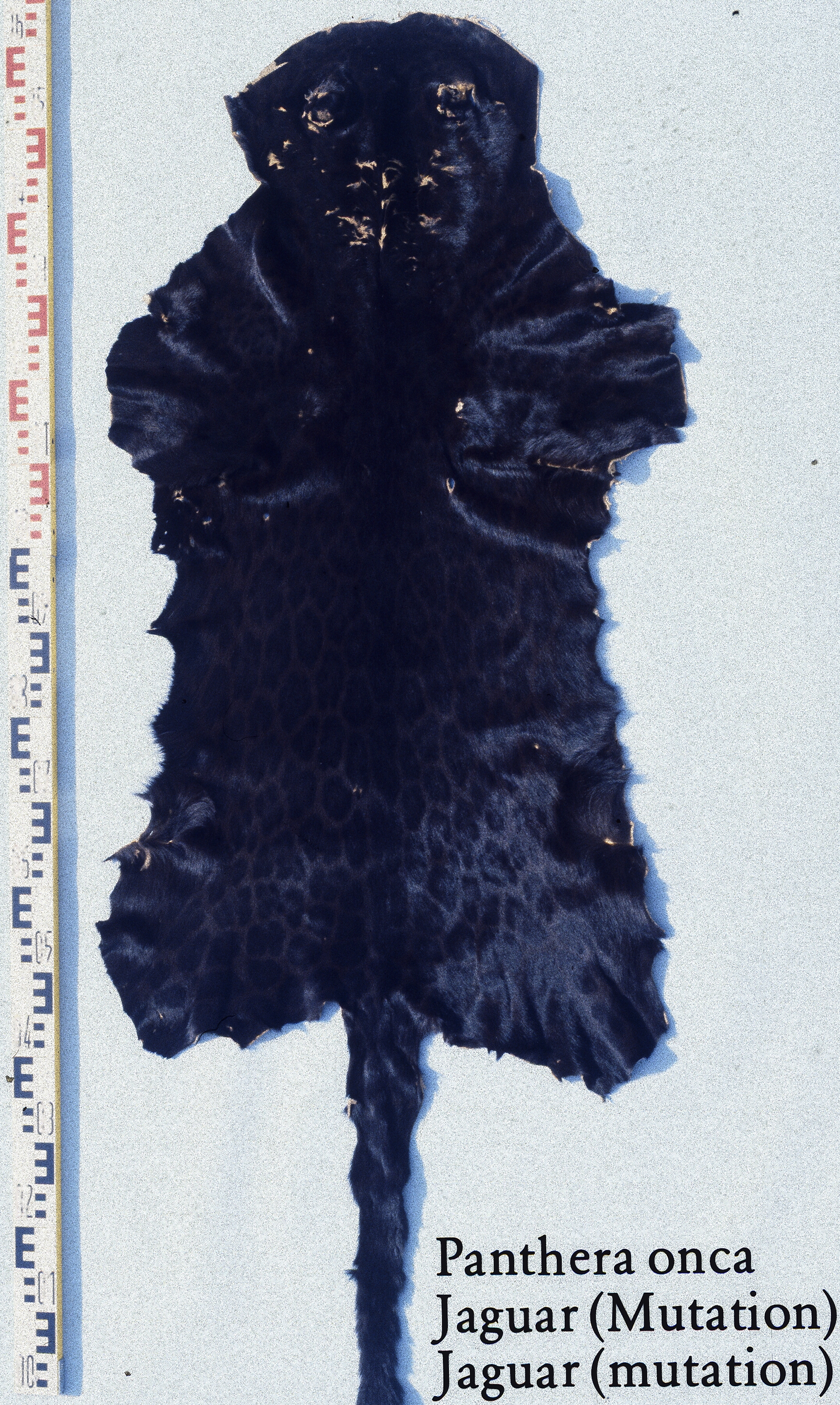 Jaguar skin (mutation) (Panthera onca). Fur skin collection, Bundes-Pelzfachschule, Frankfurt/Main, Germany